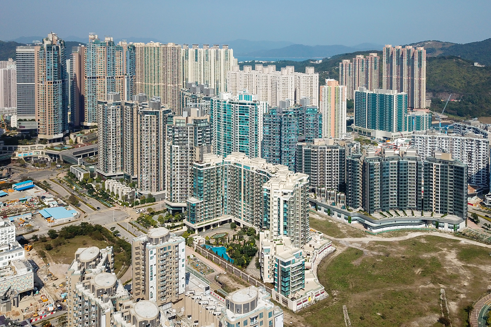 TKO South view